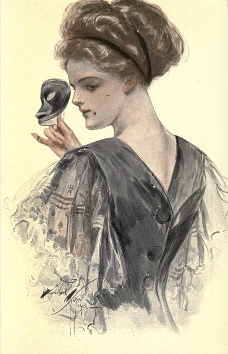 Frontispiece illustration by Harrison Fisher, appearing in the 1908 novel "The Lure of the Mask" by Harold MacGrath